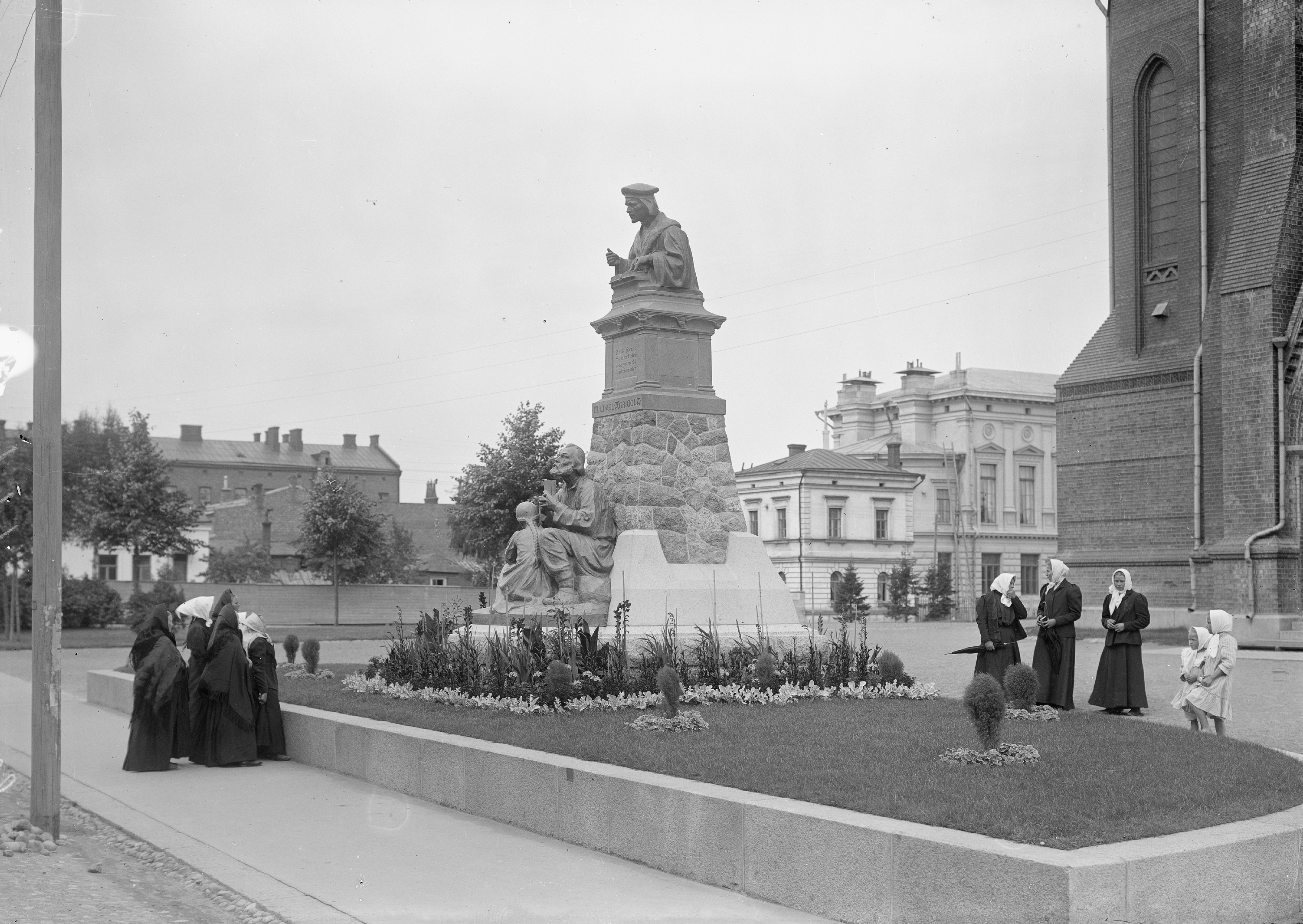 The original statue with a book-holding old man and a child by the base was lost near the end of the Winter War.